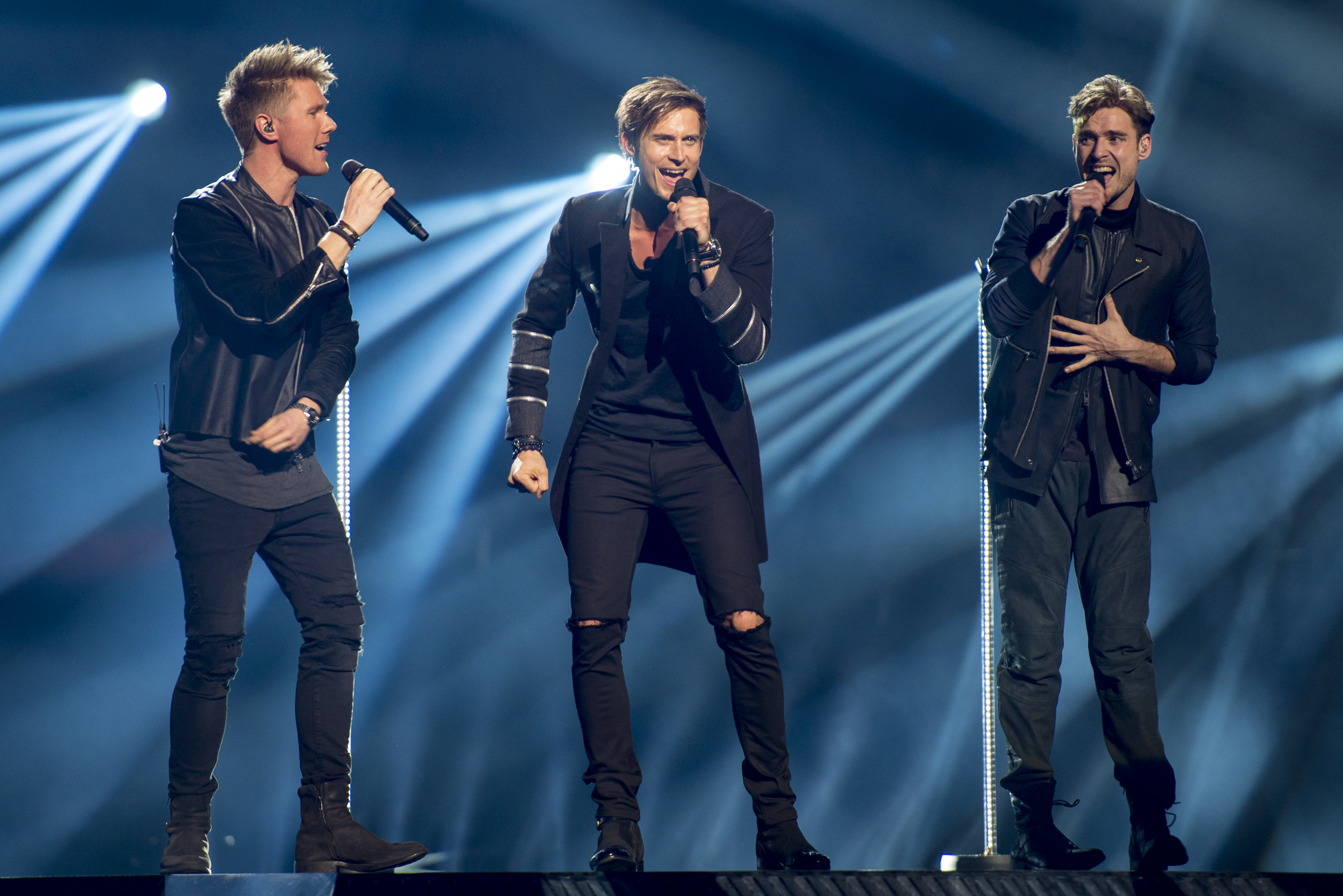 Lighthouse X representing Denmark with the song "Soldiers of Love" during a rehearsal before the second semi final of the Eurovision Song Contest 2016 in Stockholm. (Help translate this text)